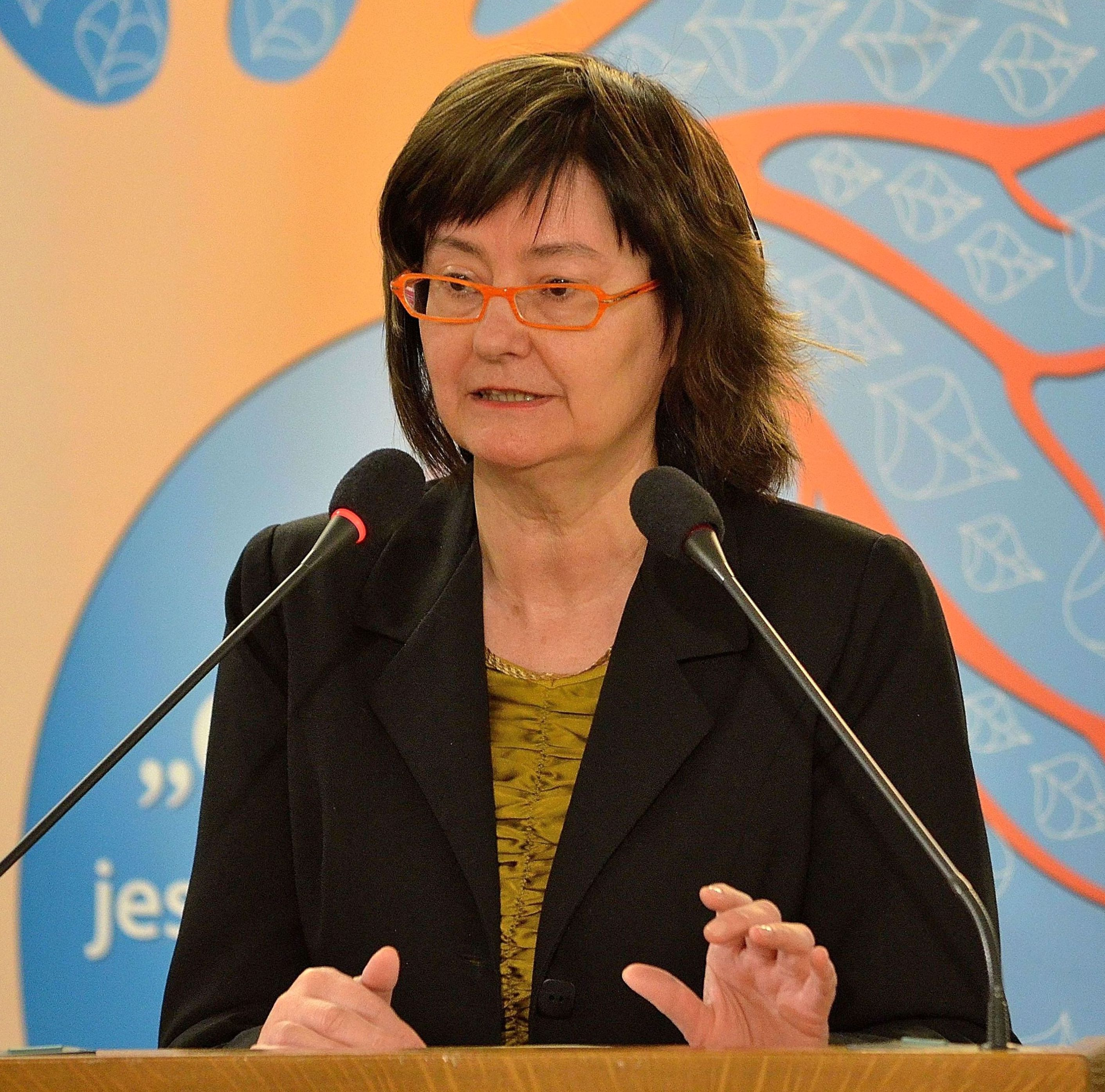 Professor Irena Lipowicz